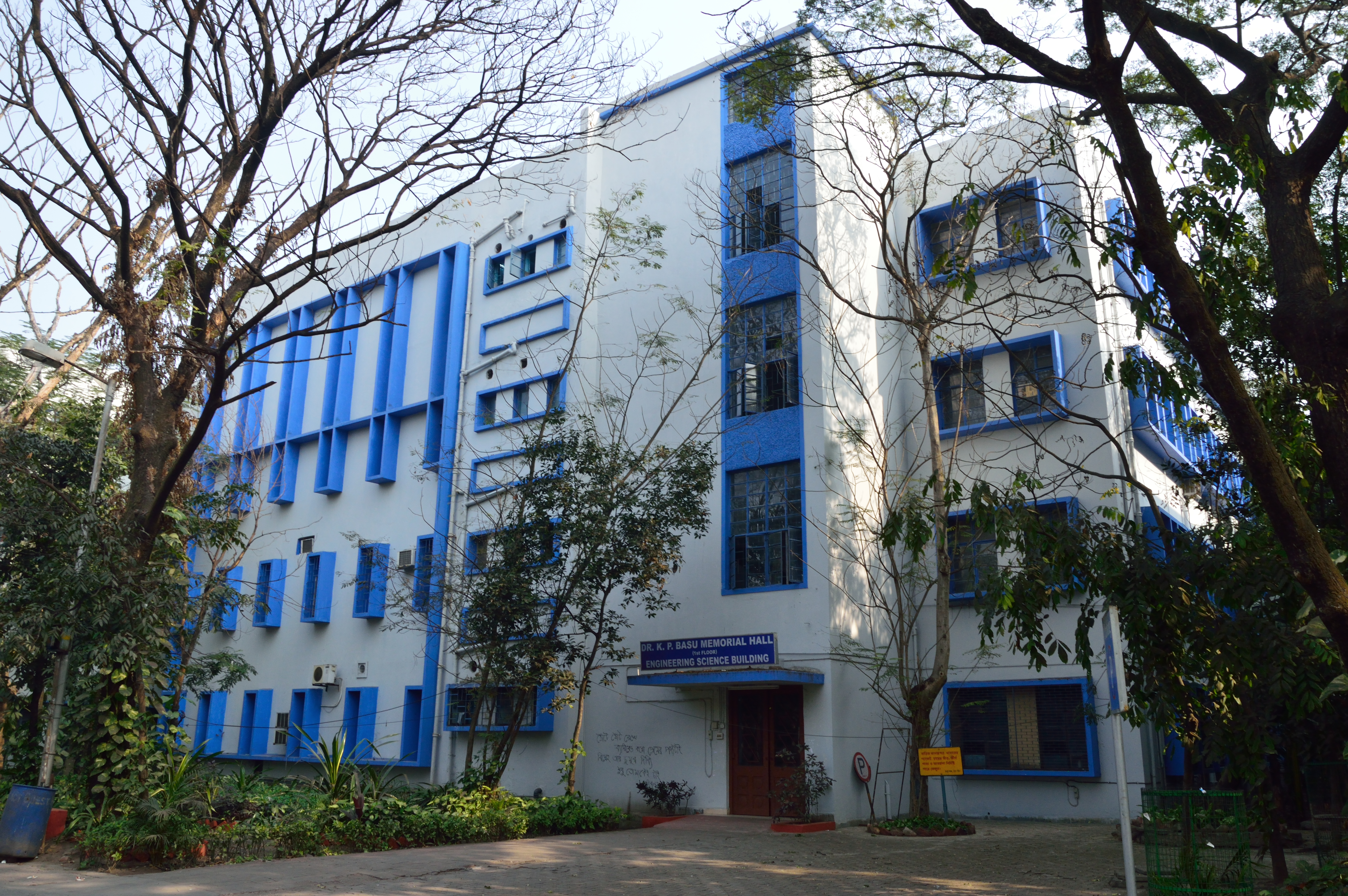 This photograph was taken at the Jadavpur University campus, kolkata.